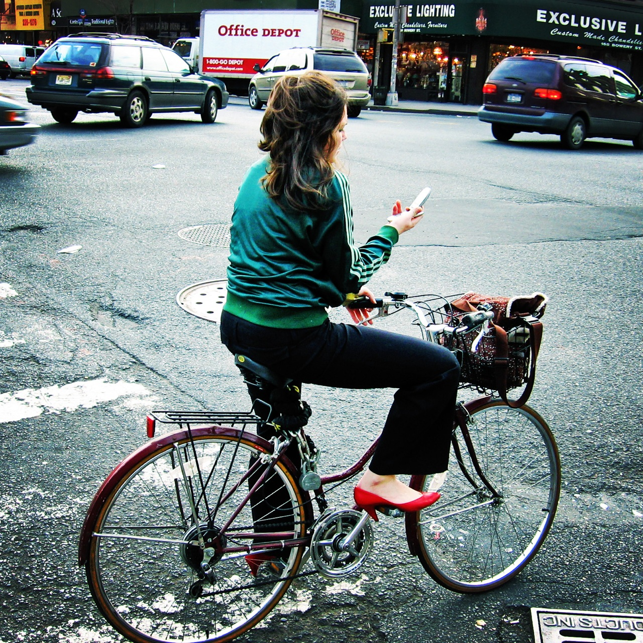 A woman reading SMS messages on her mobile phone while standing on a bike in traffic. The photo was taken at at the corner between The Bowery and Delancey Street